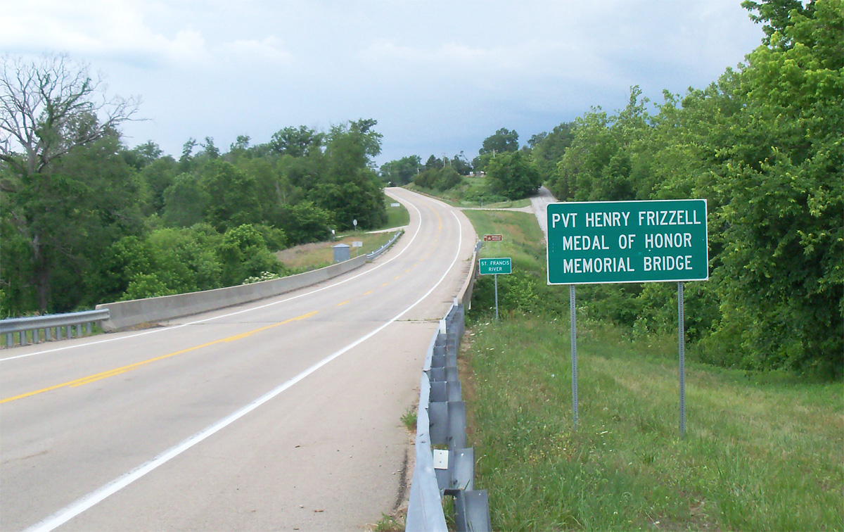 Pvt. Henry Frizzell Medal of Honor Memorial Bridge over the St. Francis River. Hwy 72 near Roselle in Madison County, Missouri.